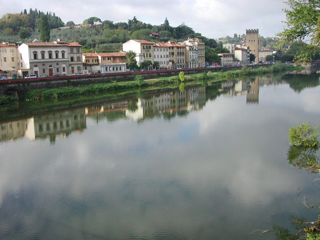 Arno in Florence. Source: photo uploaded by User:RicciSpeziari. Photographer: Basilio Speziari